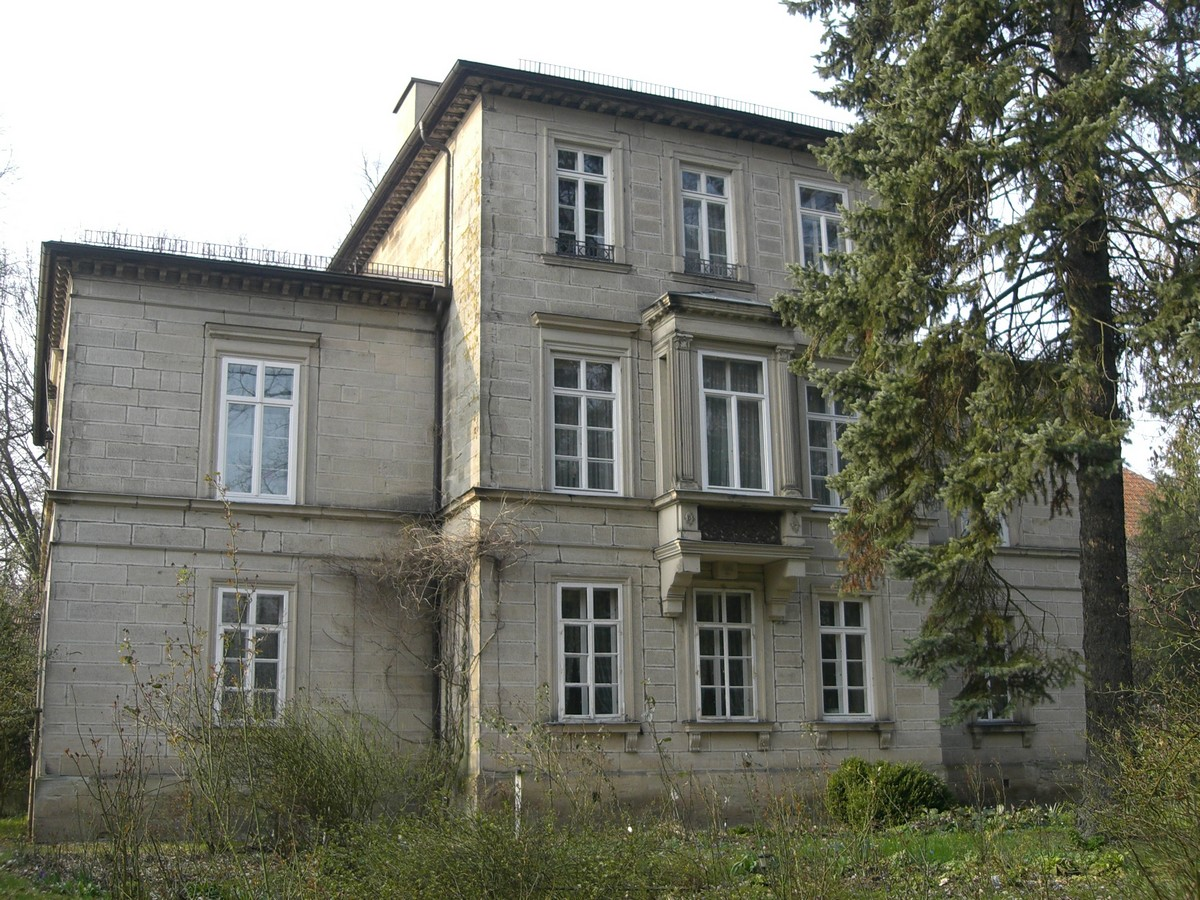 Neudörfles, Coburg.